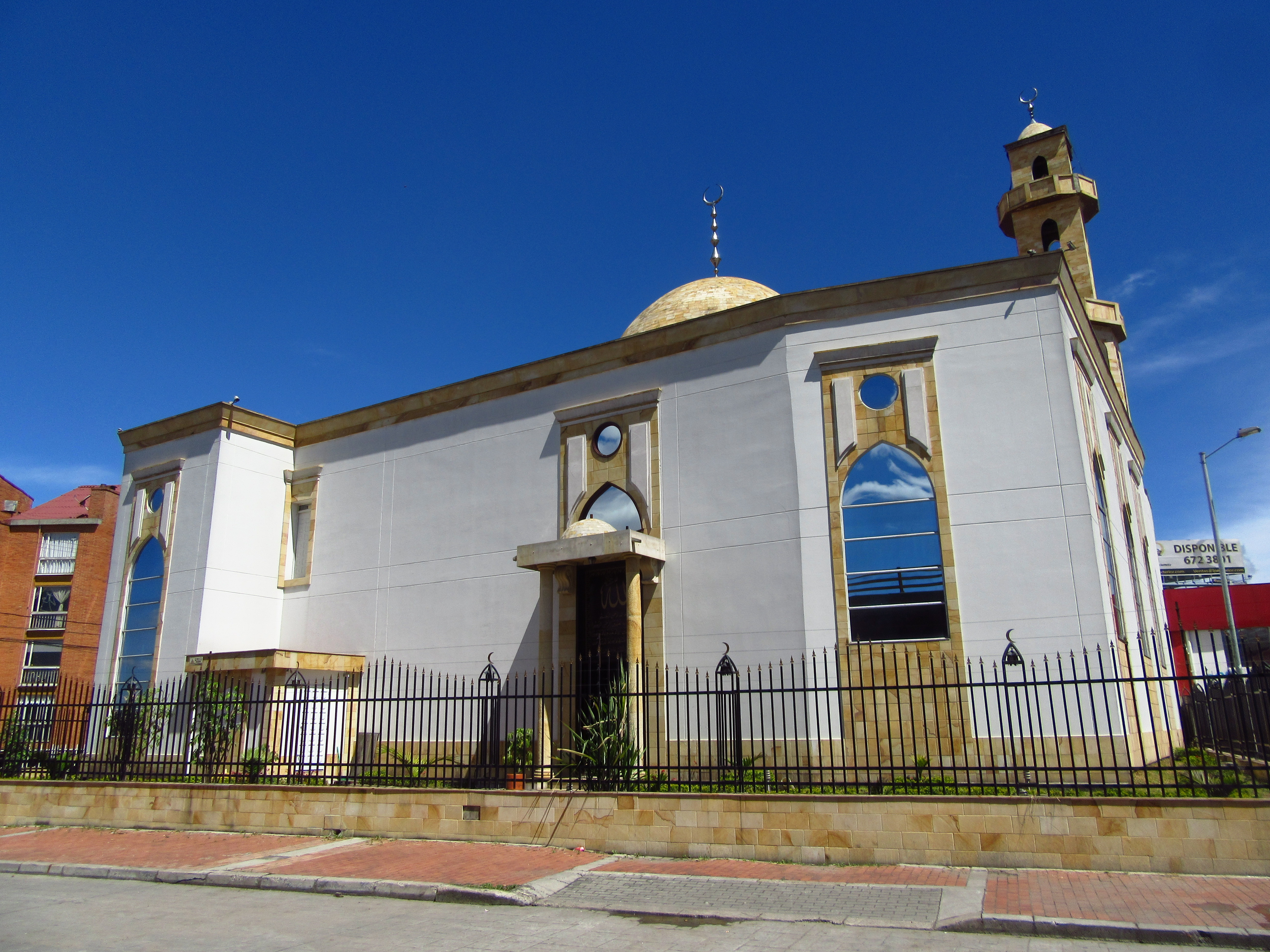 Bogotá